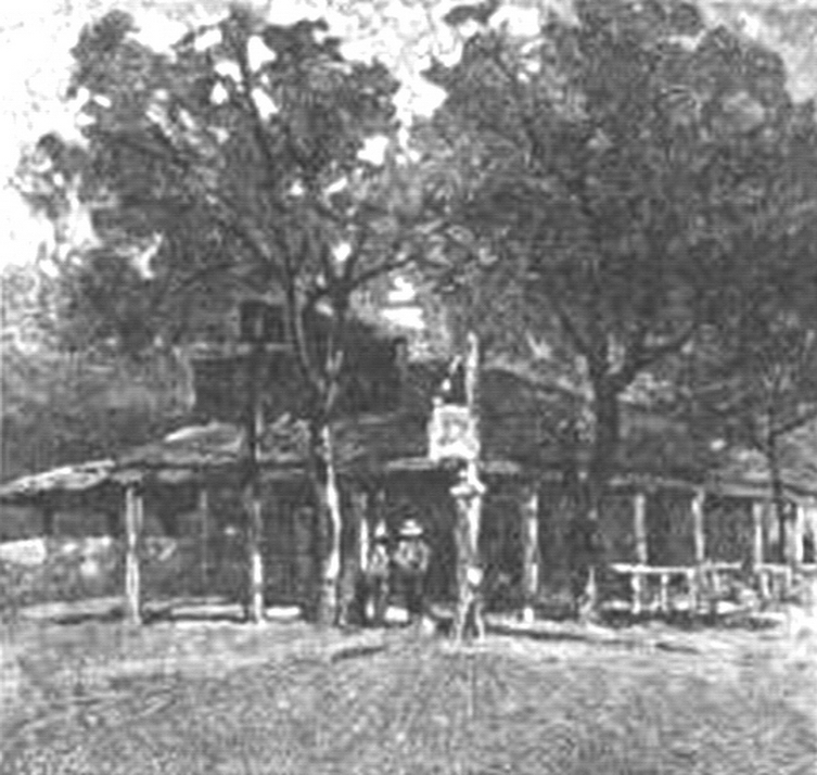 Page from book: Mexico, California and Arizona; being a new and revised edition of Old Mexico and her lost provinces. (1900)